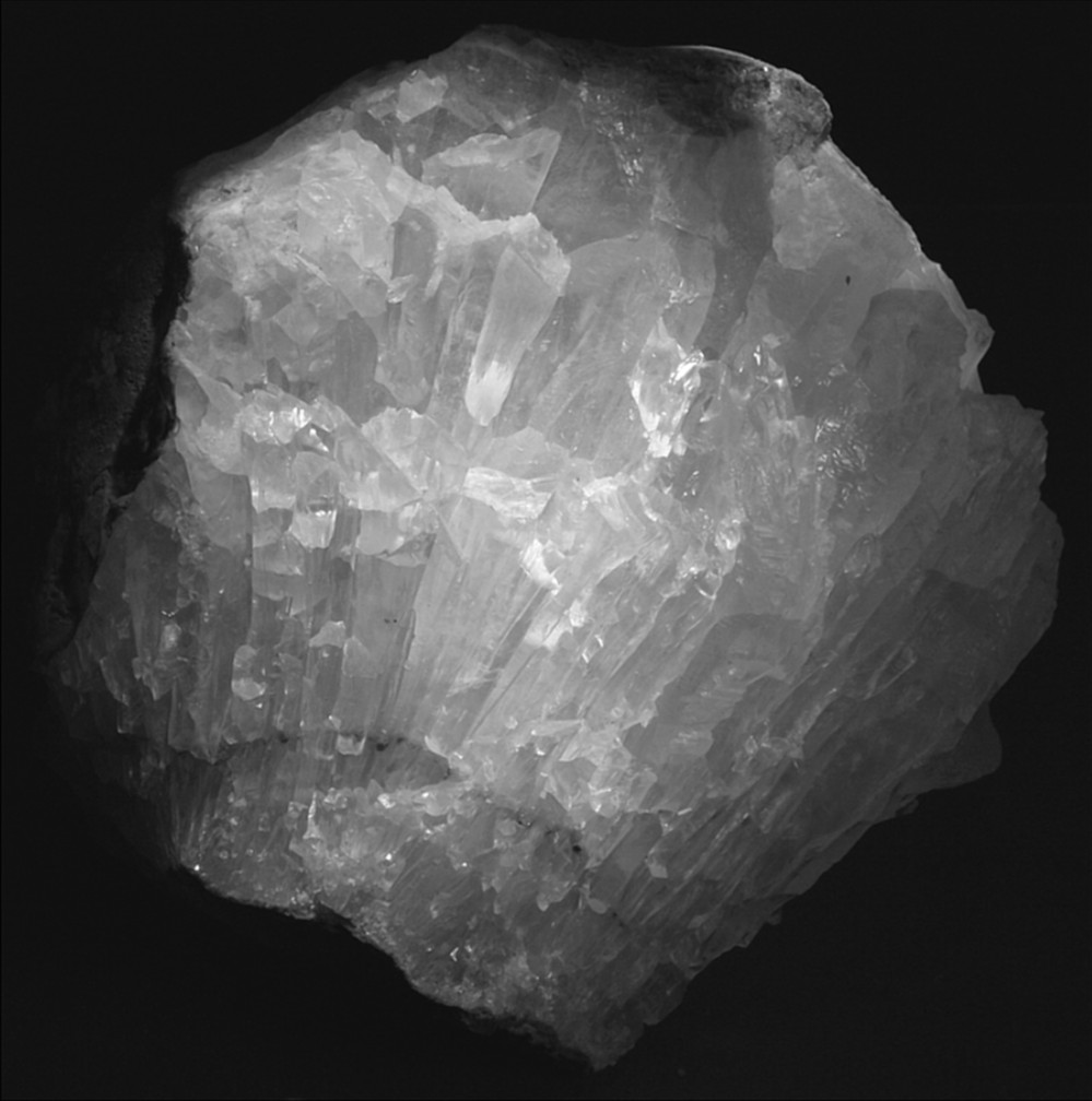 Calcite - crystals grow together